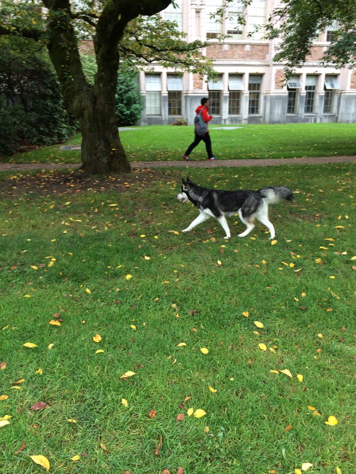 Not a stuffed animal suit!